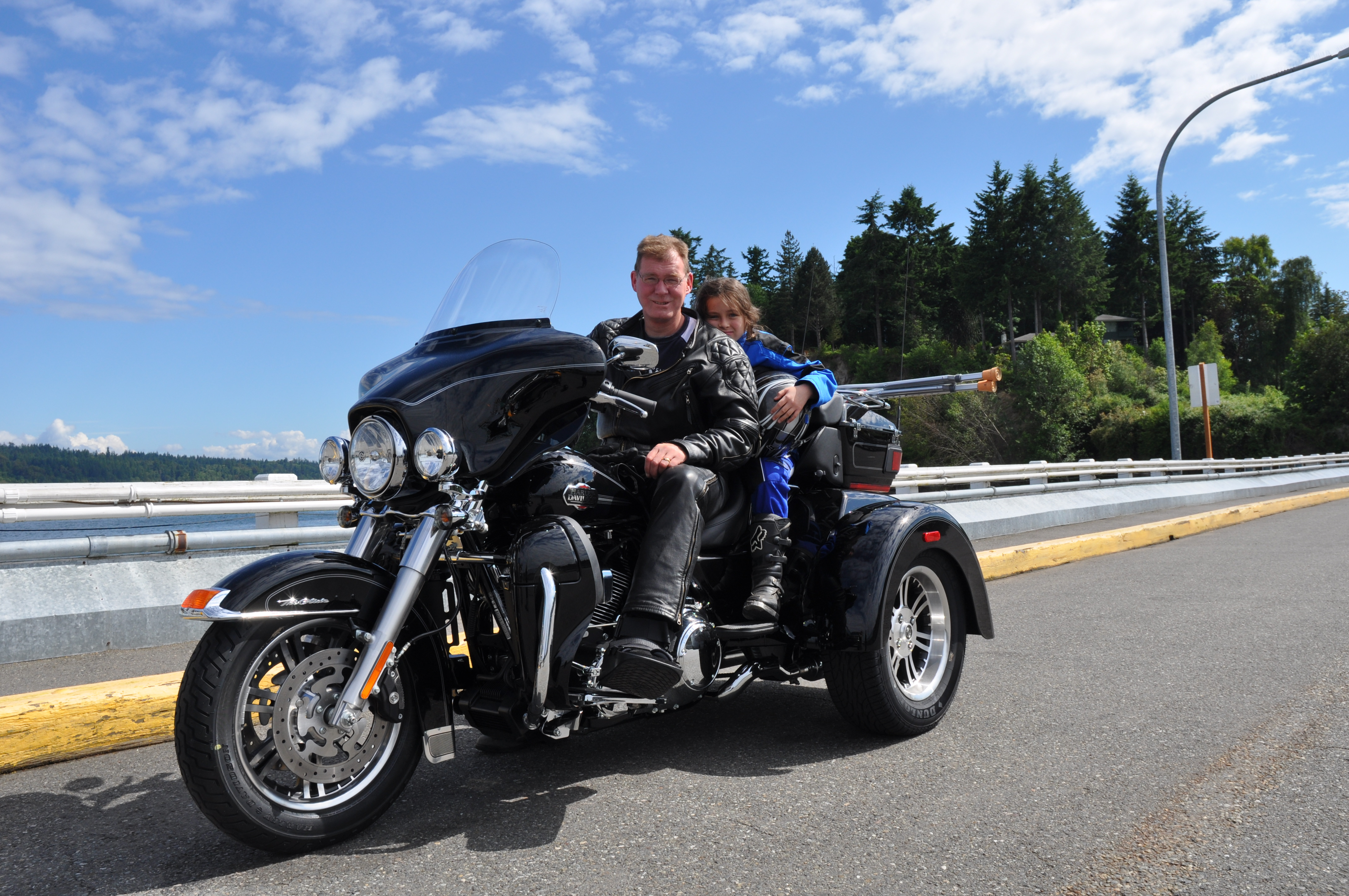 Jack Lewis rides a Harley Trike with a broken ankle. Tri-Glide HD